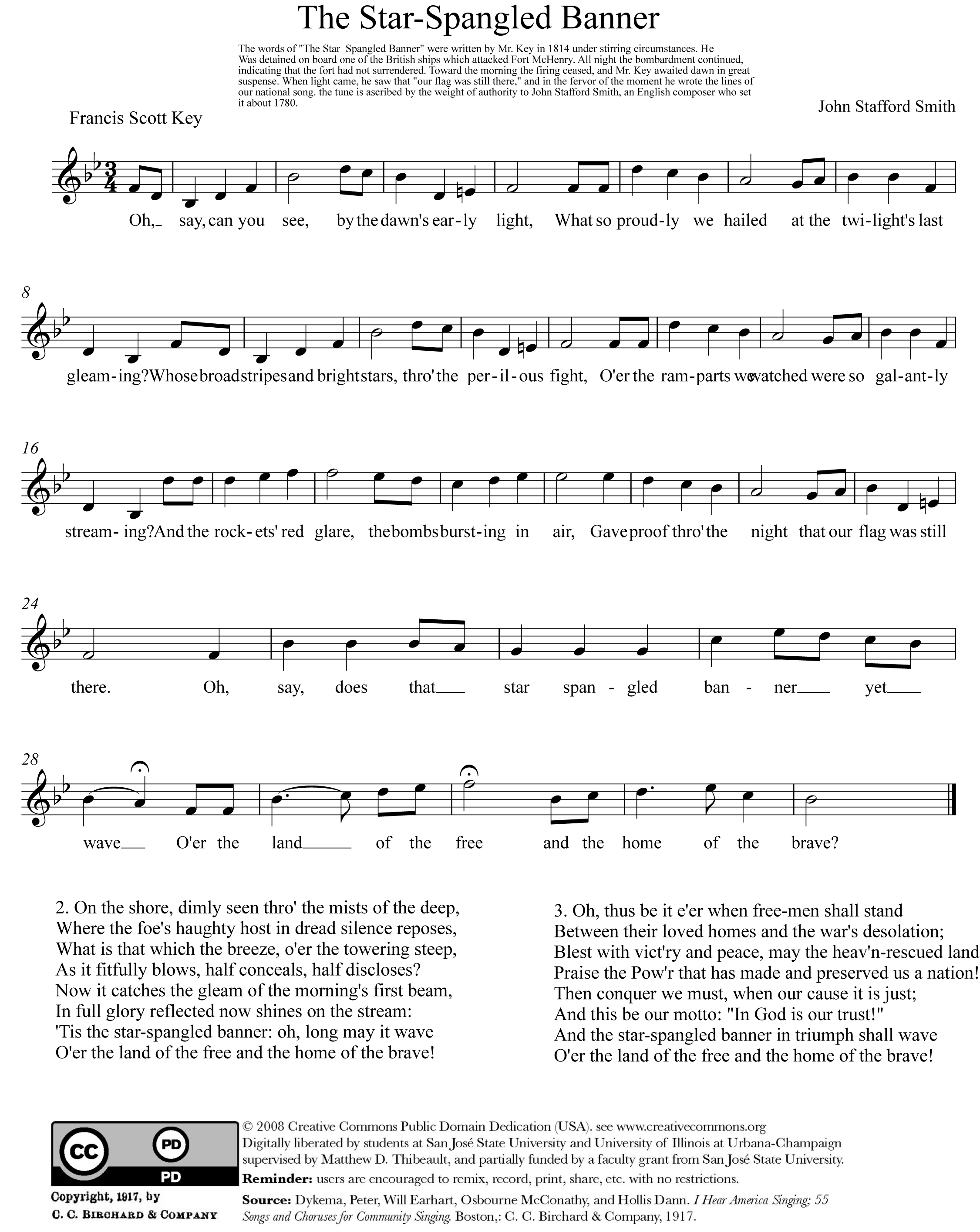 The Star Spangled Banner